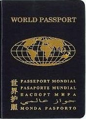 New wersion of the World Passport